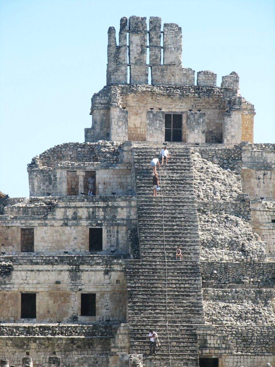 Mayan ruins at Edzna, Campeche, Mexico